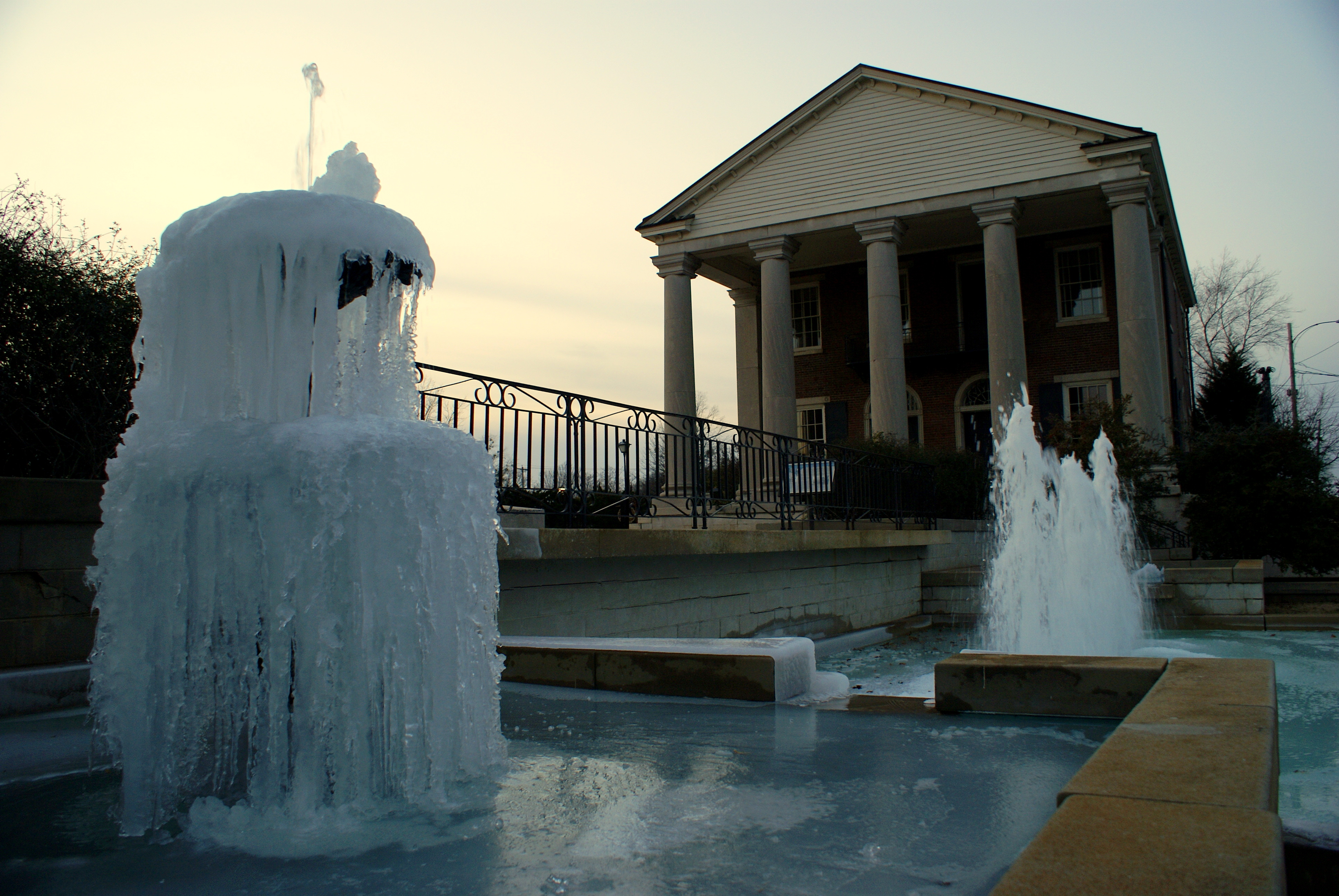 Fountain in front of the Old State Bank in Decatur, Alabama during the winter.